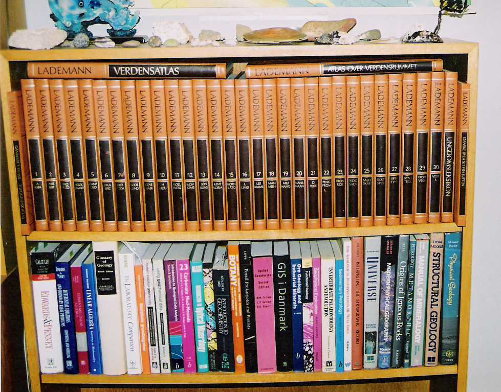 A bookshelf with an encyclopaedia and textbooks in various scientific disciplines; Astronomy, Botany, Chemistry, Geology, Geography, GIS, Histology, Mathematics, Palaeontology etc.